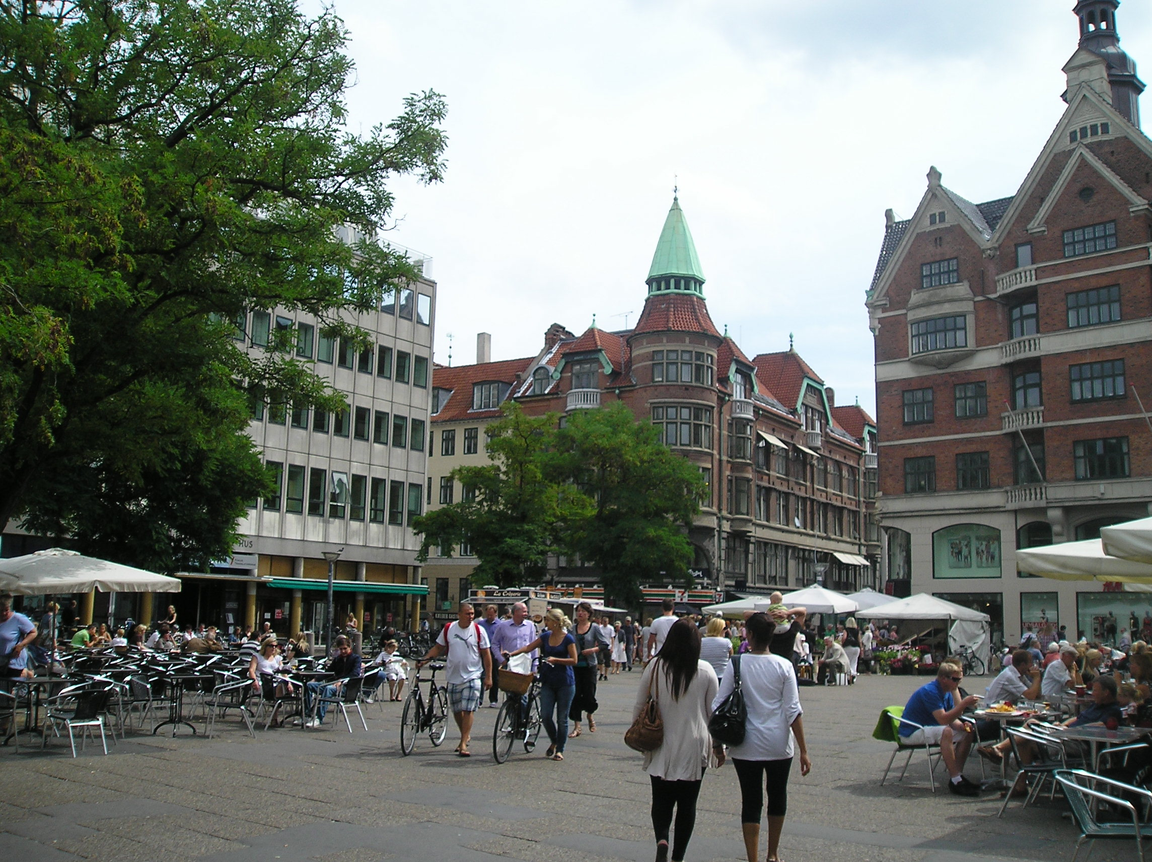 The square Kultorvet in Copenhagen.